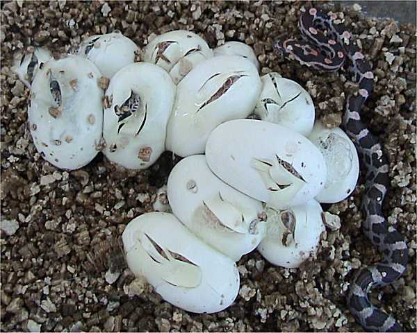 Photographer: LA Dawson Corn Snakes (Pantherophis guttatus) hatching.